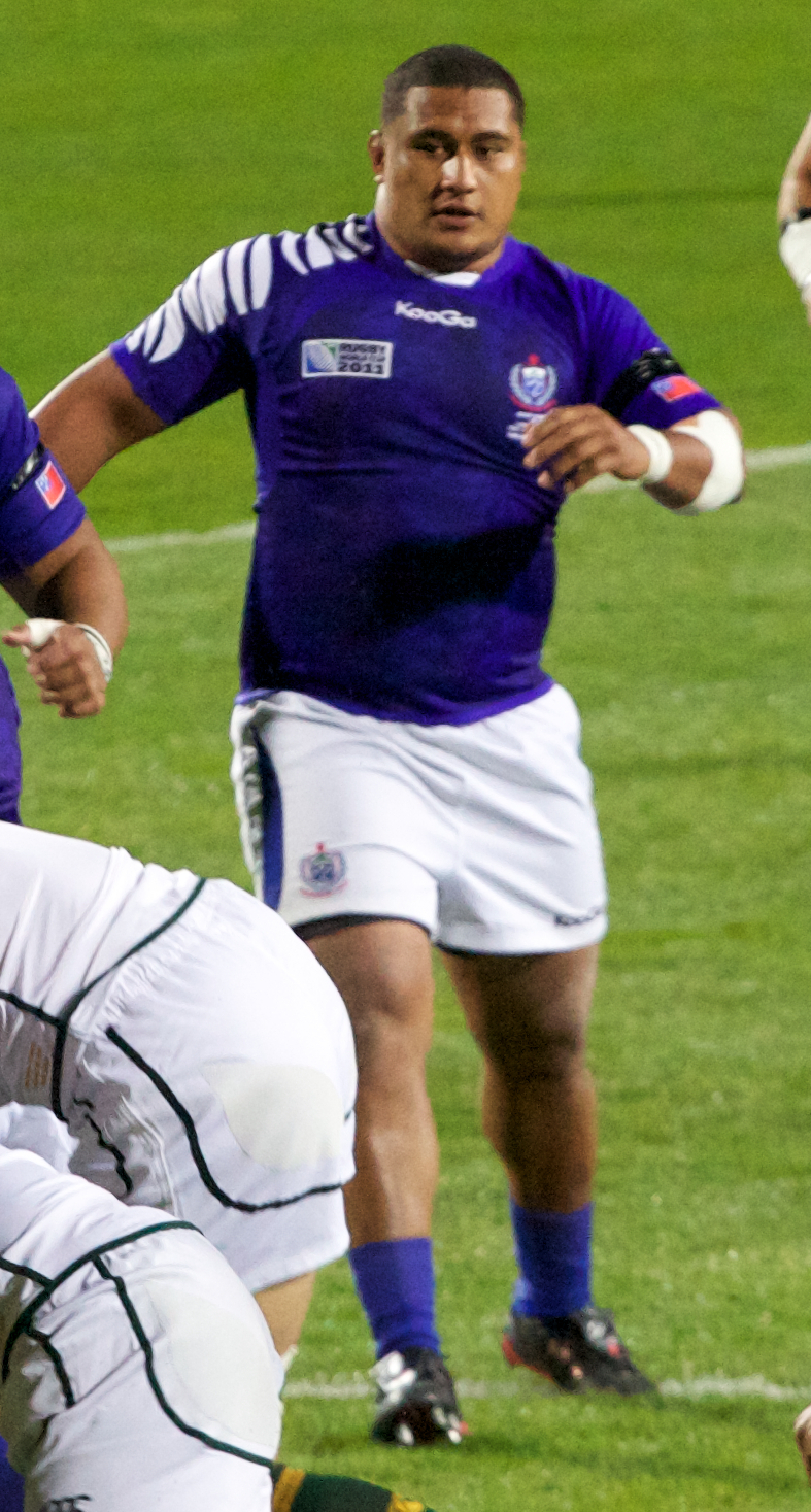 Samoan rugby union player Sakaria Taulafo during 2011 Rugby World Cup match against South Africa.